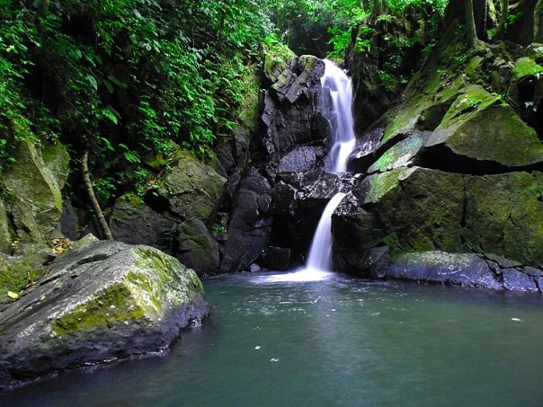 Water fall on the Island of Weh, Aceh, Indonesia.